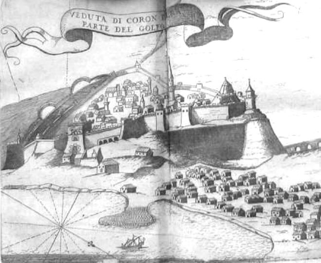 Koroni_1692